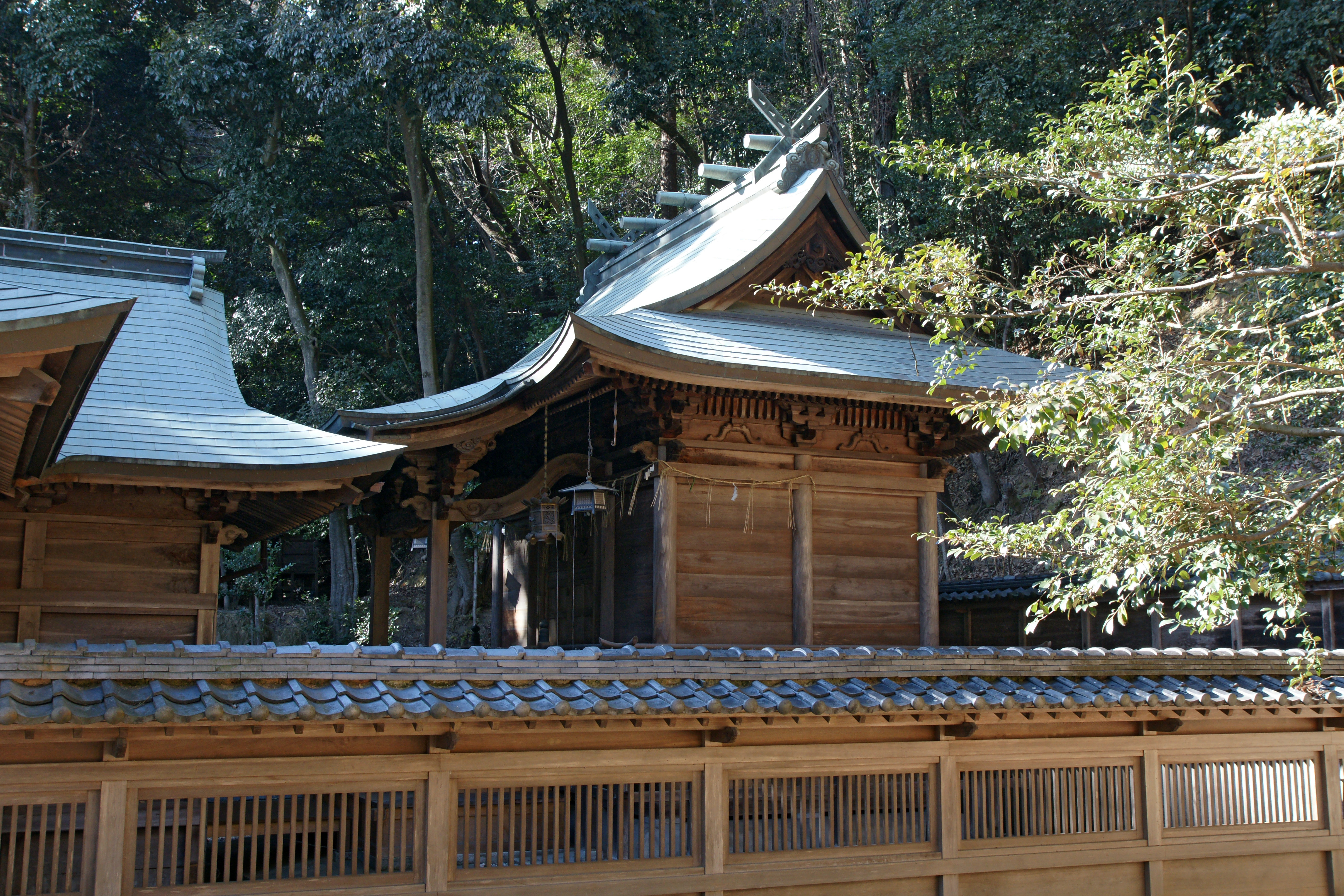 Iibonimasuamaterasu-jinja in Tatsuno, Hyogo prefecture, Japan